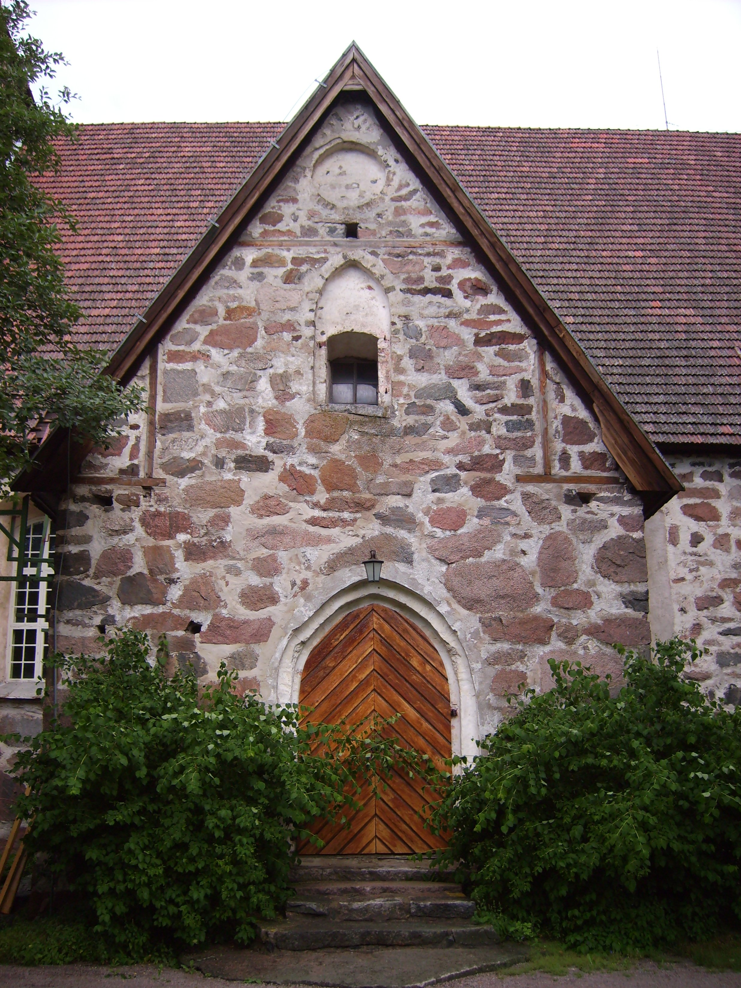 The church porch (weaponhouse) of the medieval church in Korpo, Finland